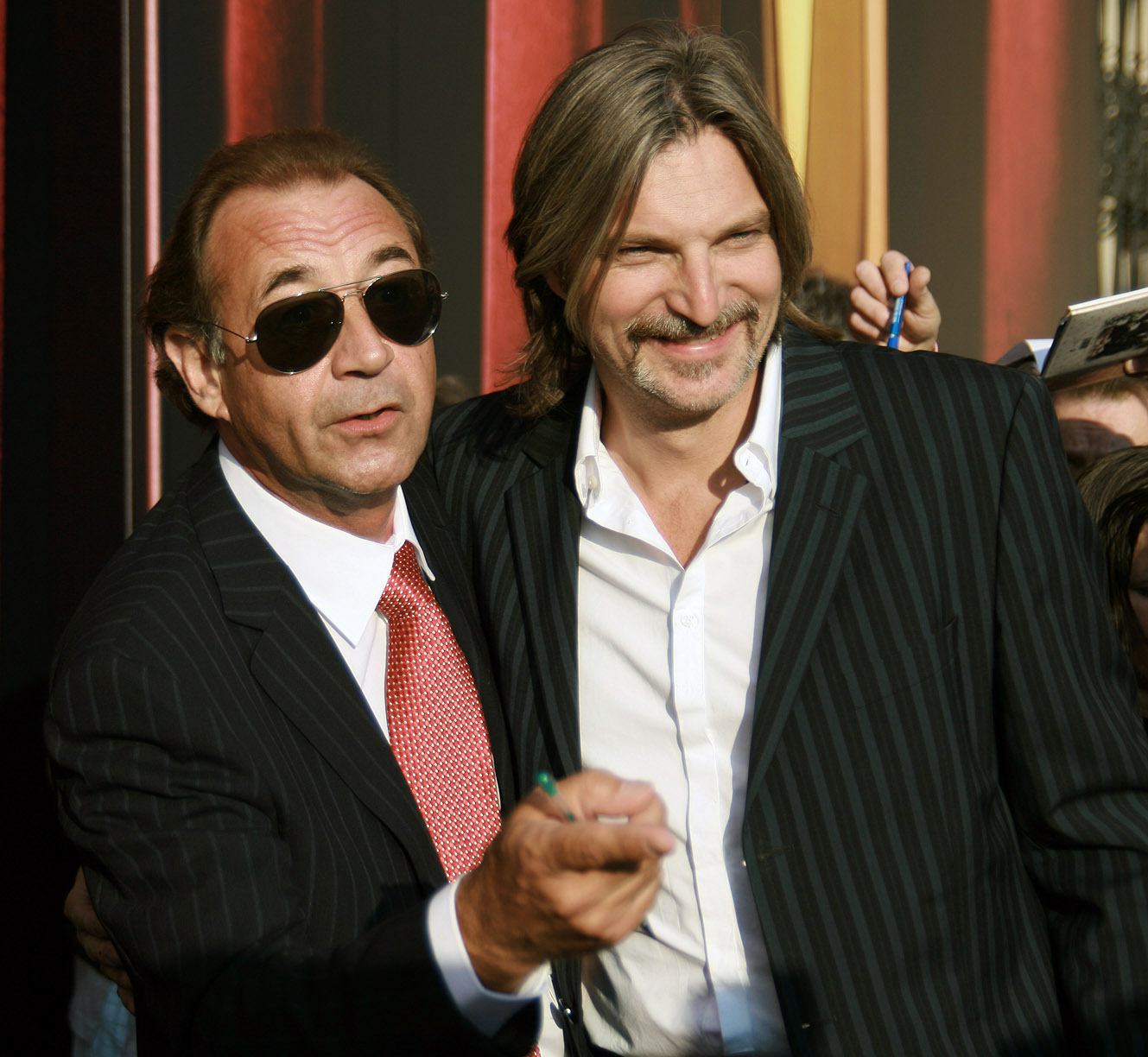 Dietrich Siegl and Stefan Jürgens at the Romy TV awards (Hofburg Imperial Palace in Vienna)